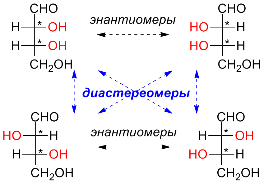 Sigma-diastereomers